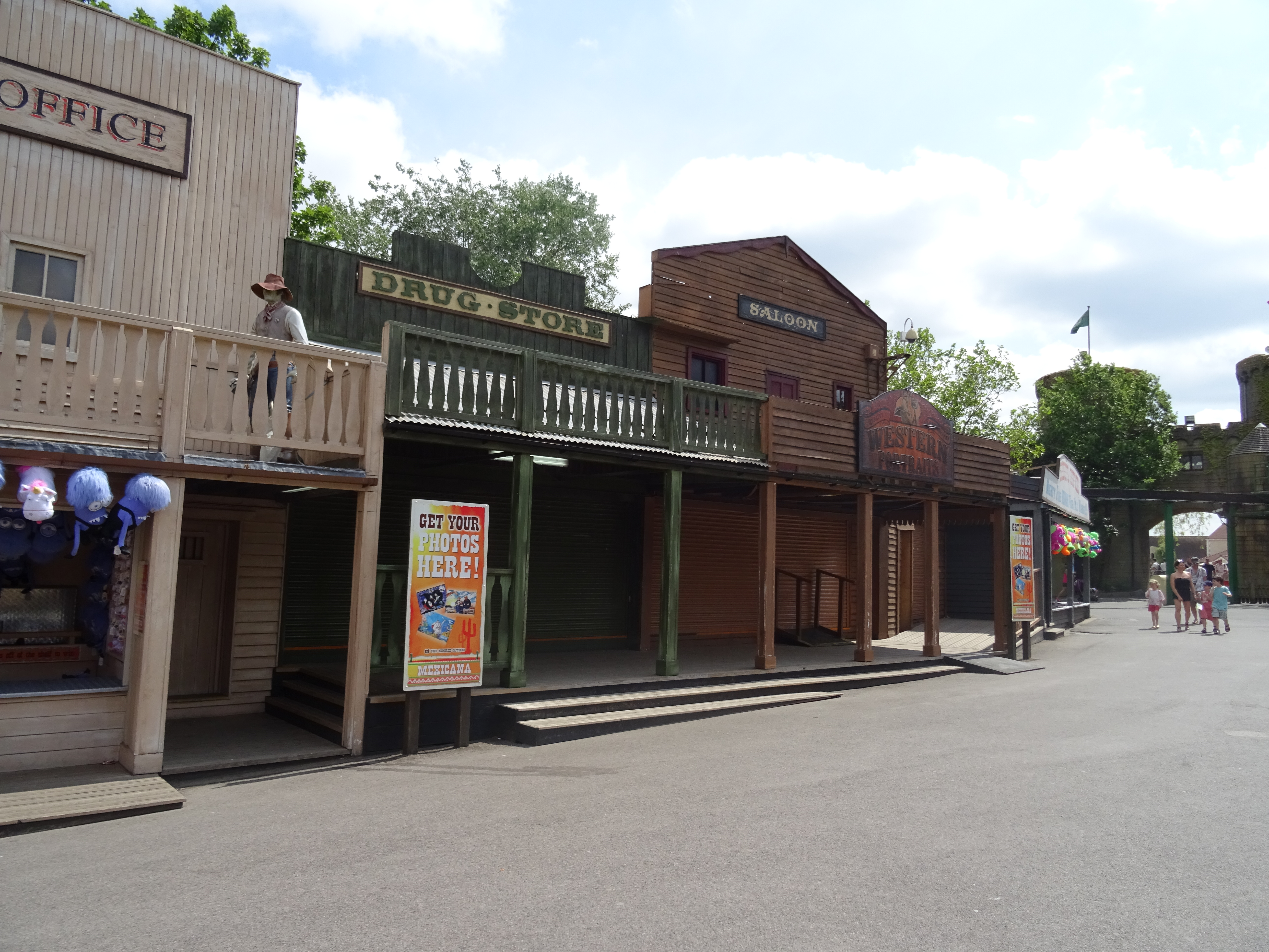 Mexicana at Chessington in 2015.